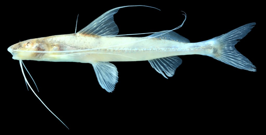 Mastiglanis asopos GUY14-26 56mm